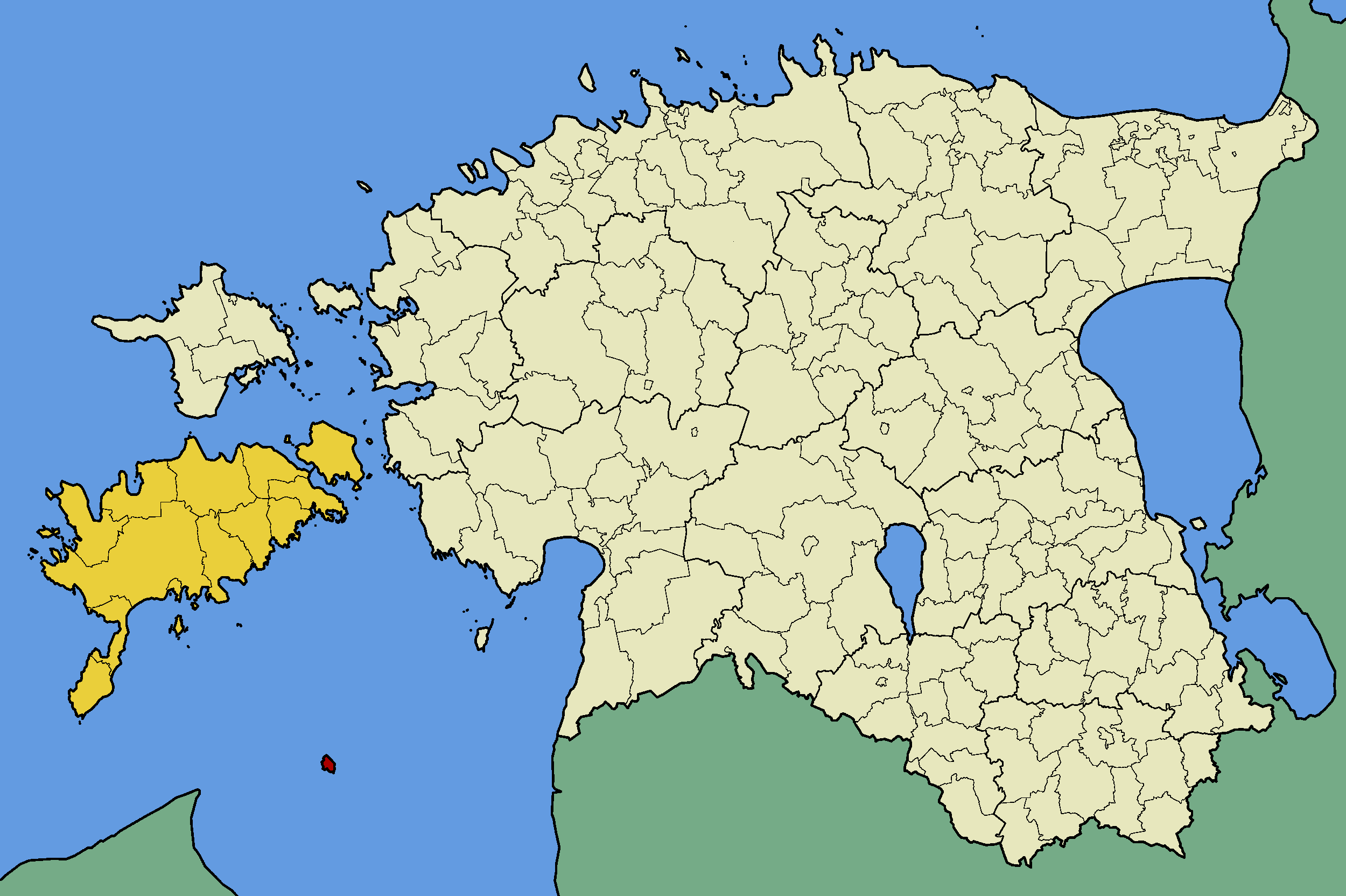 Map of Estonia with borders of municipalities (parishes). Saare county and Ruhnu municipality emphasized.